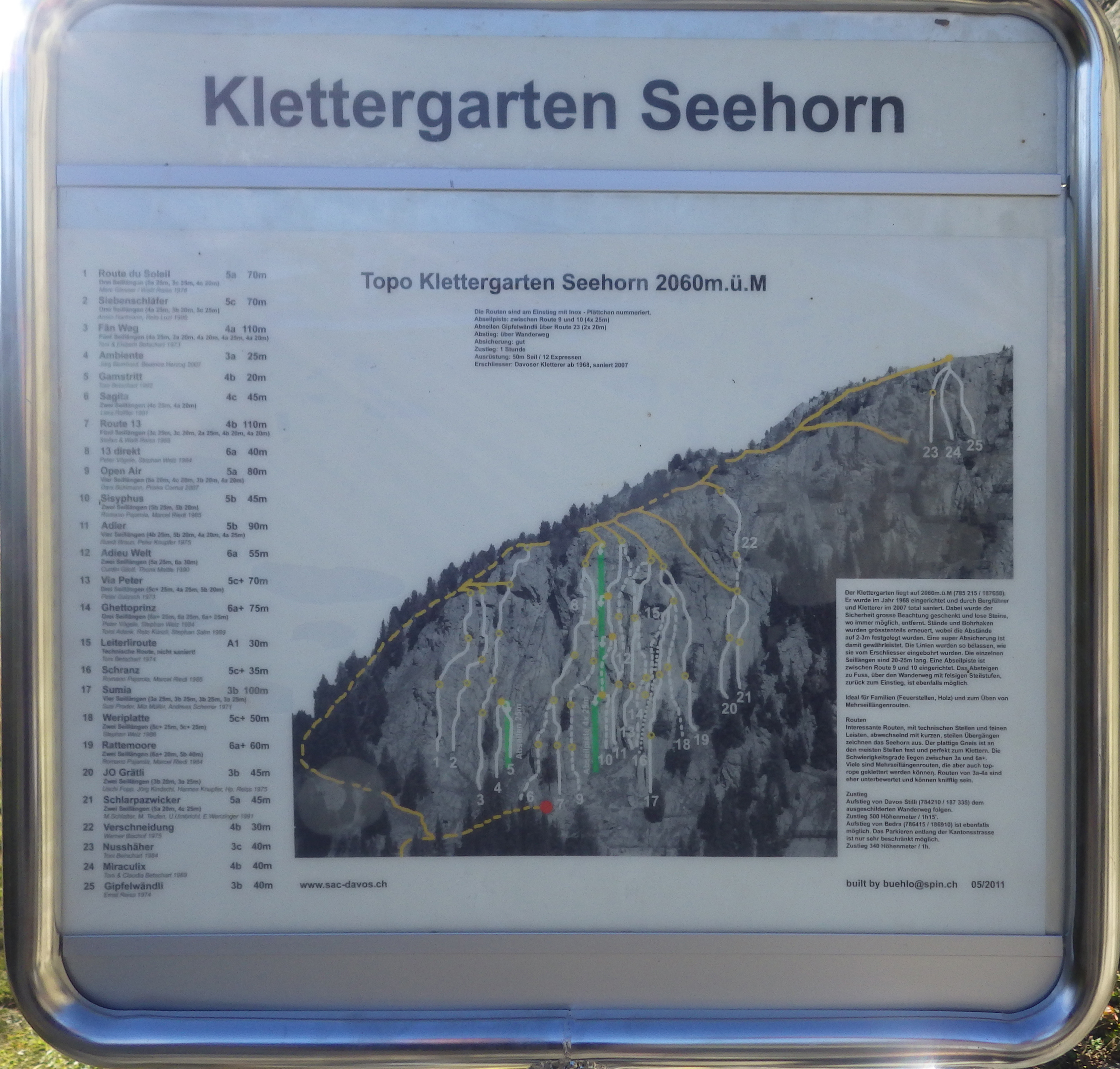 Information board for craig below Seehorn, Davos, Grison, Switzerland